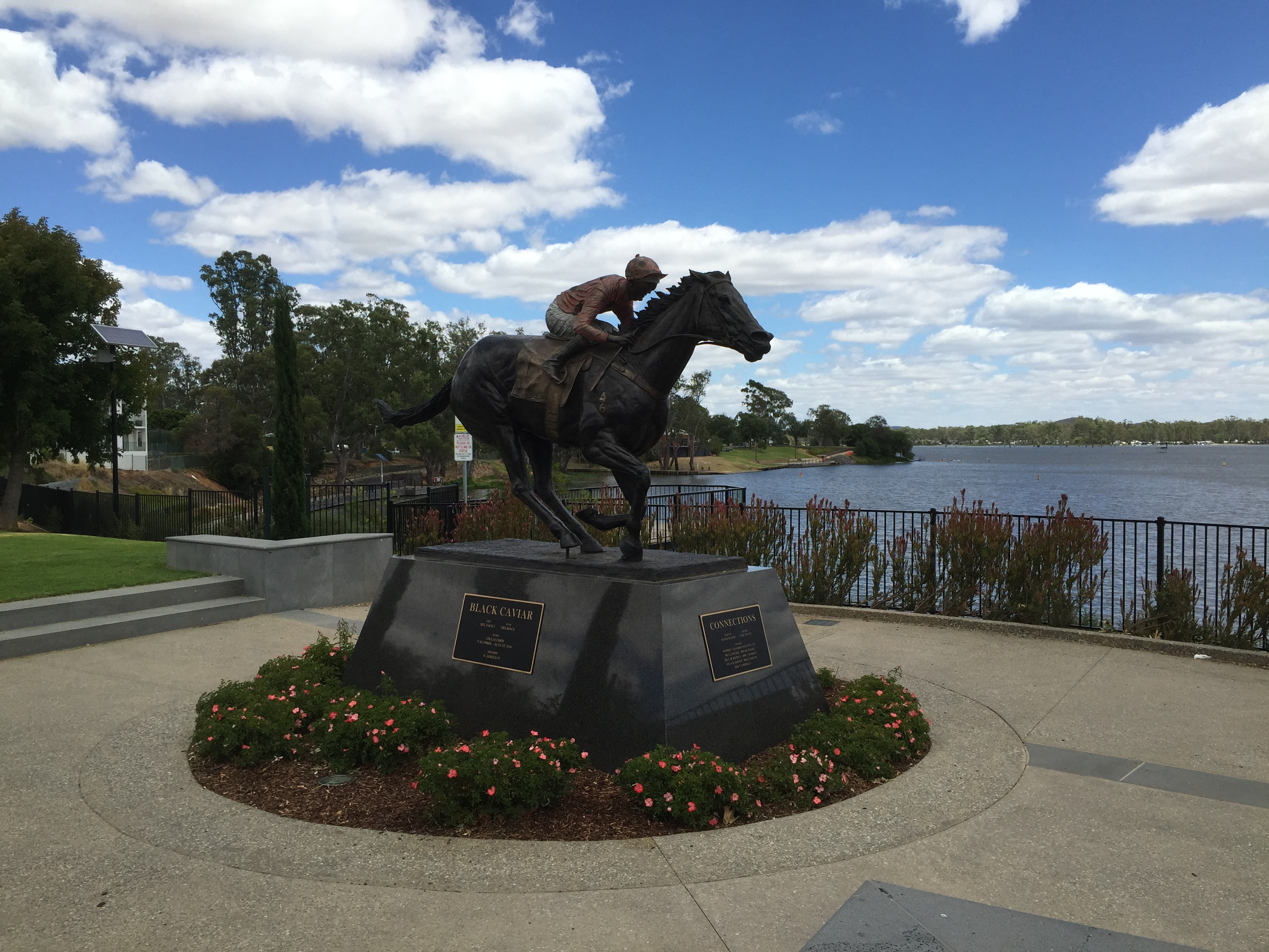 Statue of Black Caviar at Nagambie, Victoria.